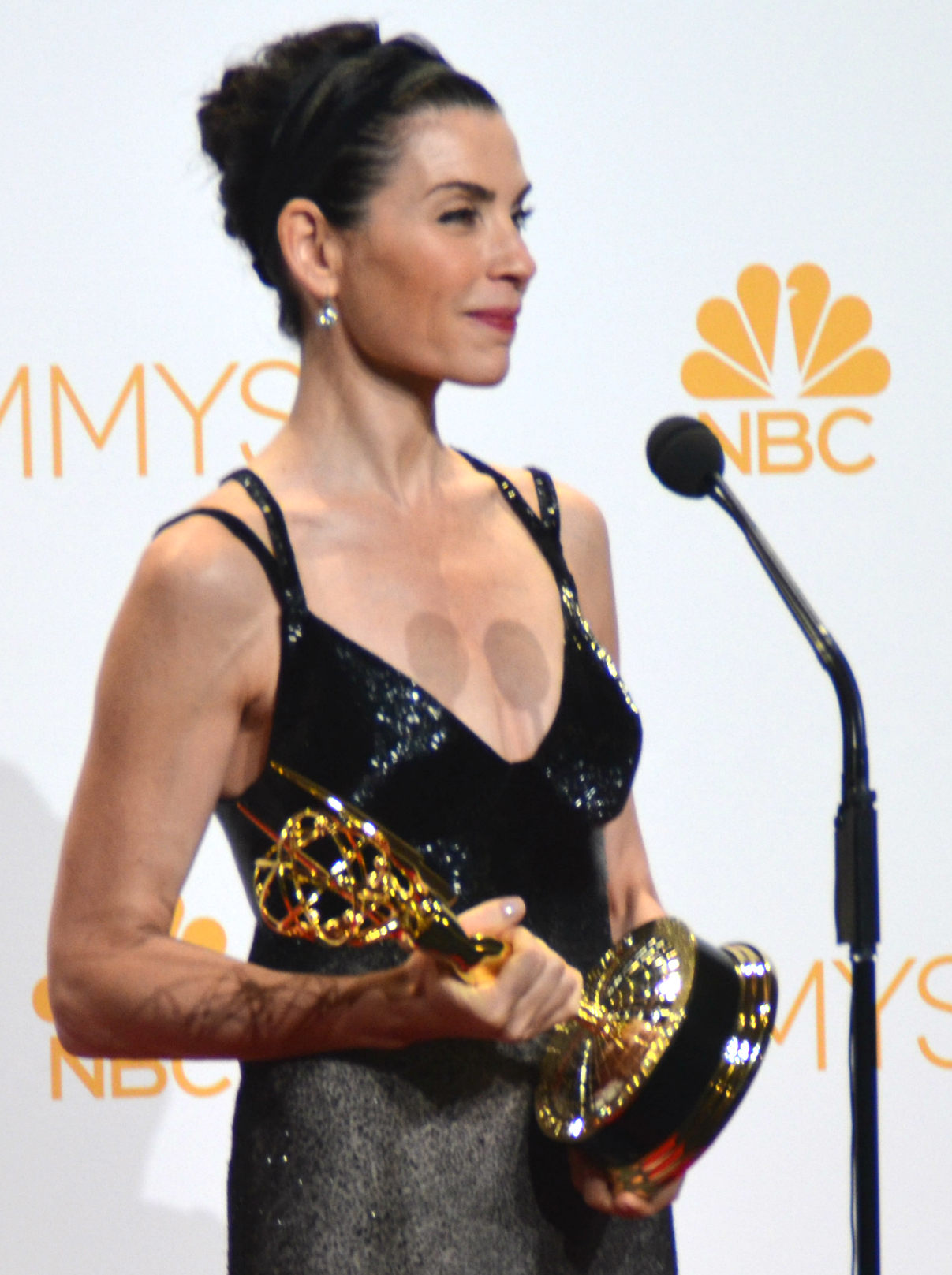 Actress Julianna Margulies at the 66th Emmy® Awards Media Press Room to Interview Winners at the Nokia Theater at LA LIVE on September 22, 2014.